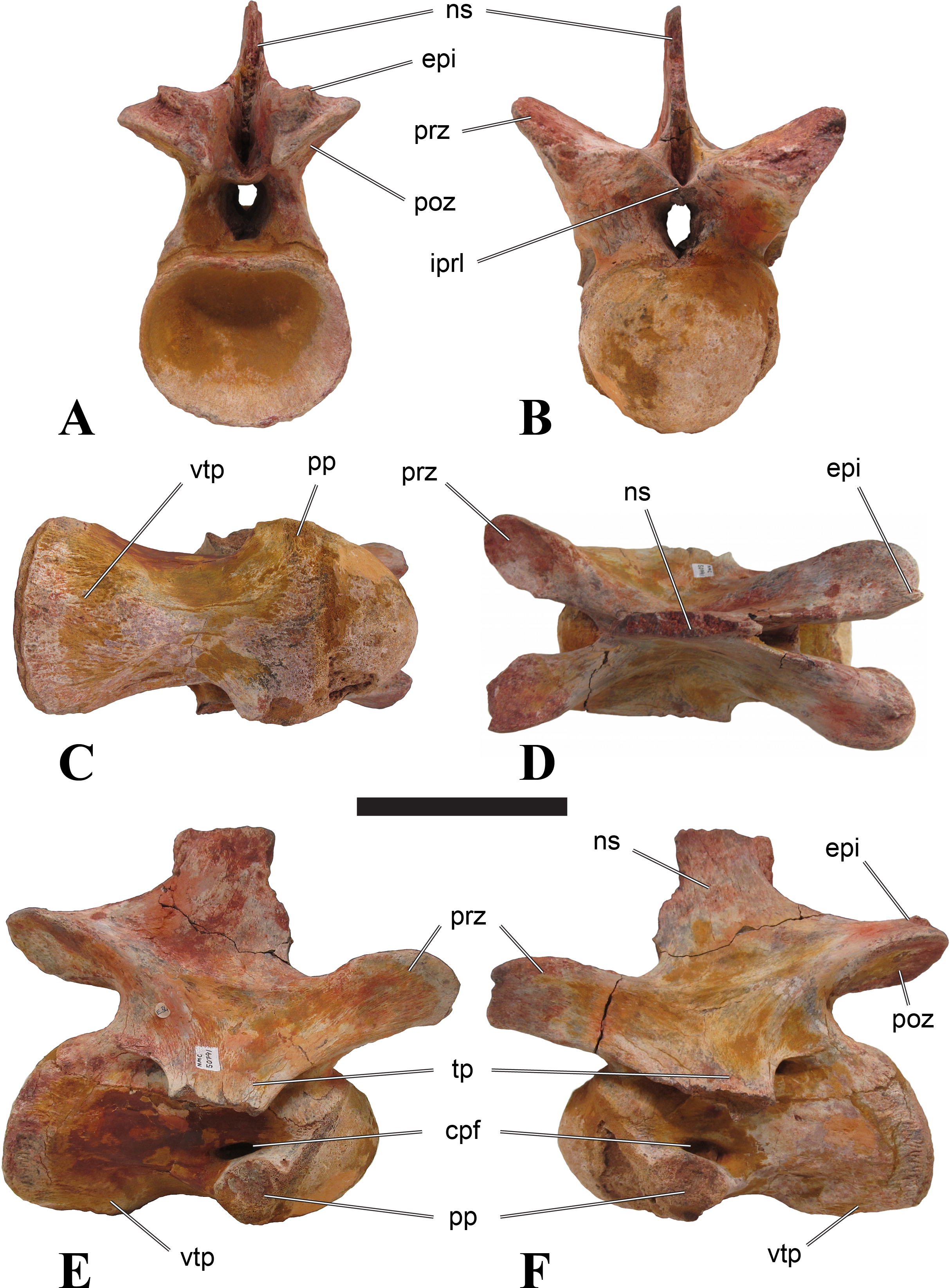 CMN 50791, mid-cervical vertebra (C6) of Sigilmassasaurus brevicollis. (A) posterior view; (B) anterior view; (C) ventral view; (D) dorsal view; (E) right lateral view; (F) left lateral view. Abbreviations: cpf, central pneumatic foramen; epi, epipophyses; iprl, interprezygapophyseal lamina; ns, neural spine; poz, postzygapophysis; pp, parapophysis; prz, prezygapophysis; tp, transverse process; vtp, ventral triangular plateau. Scale bar equals 10 cm.